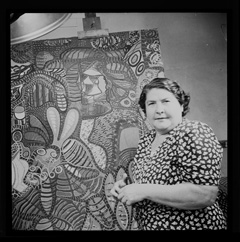 Description: Amelia Peláez